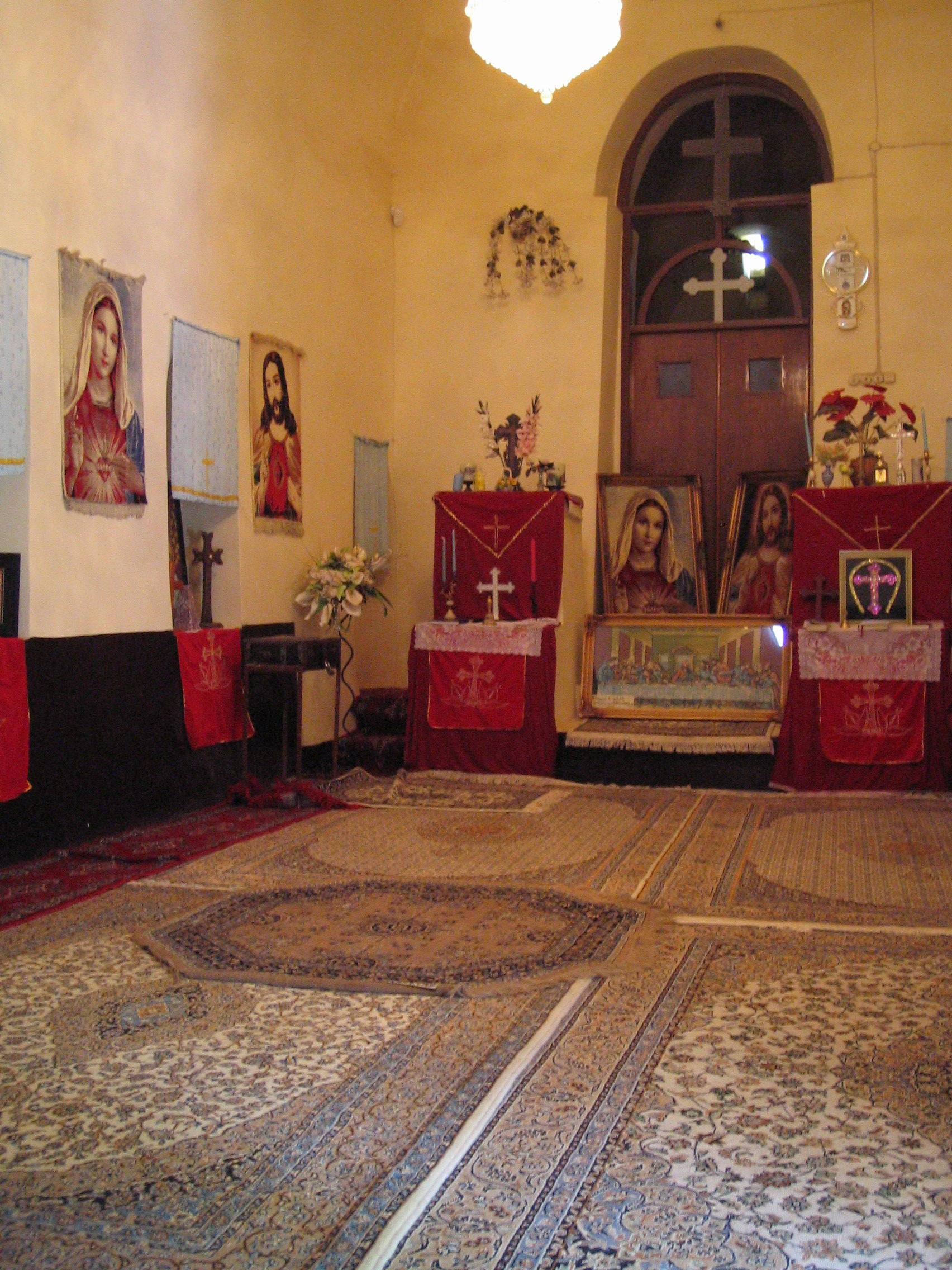 Inside a very old church on the outskirts of Urmiah, Iran.